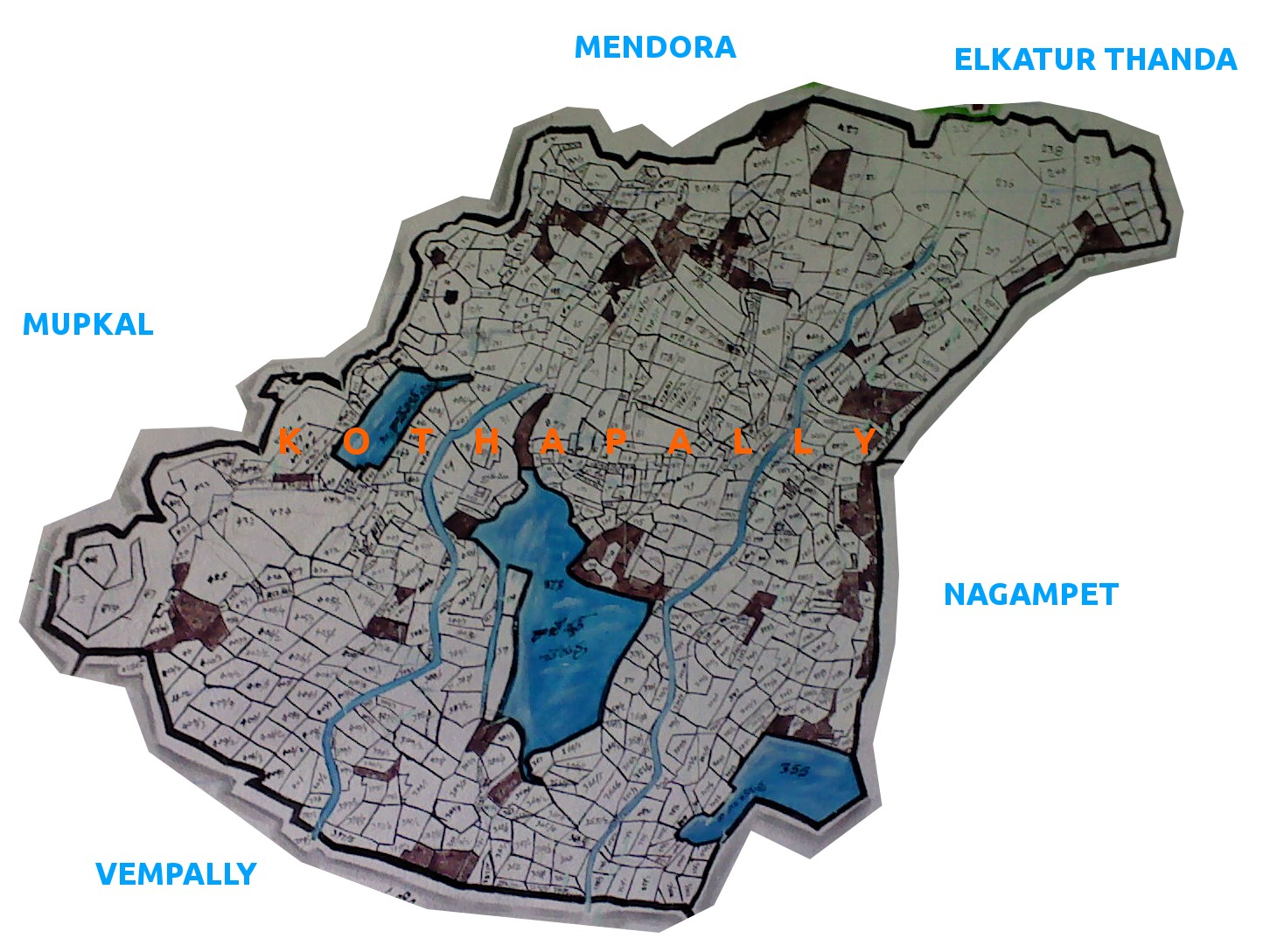 This pic captured and edited by me